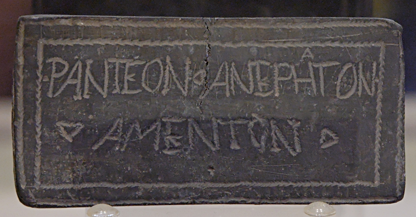 Opisthographic defixio tabella with magic signs on one side and a Latin / Greek inscription of doubtful meaning on the other side. Origin unknown.